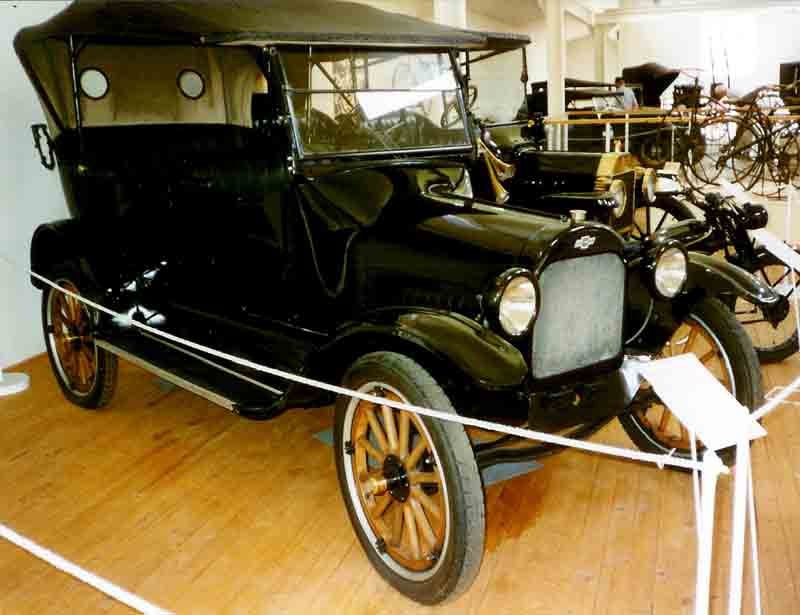 1920 Chevrolet Series 490 Touring